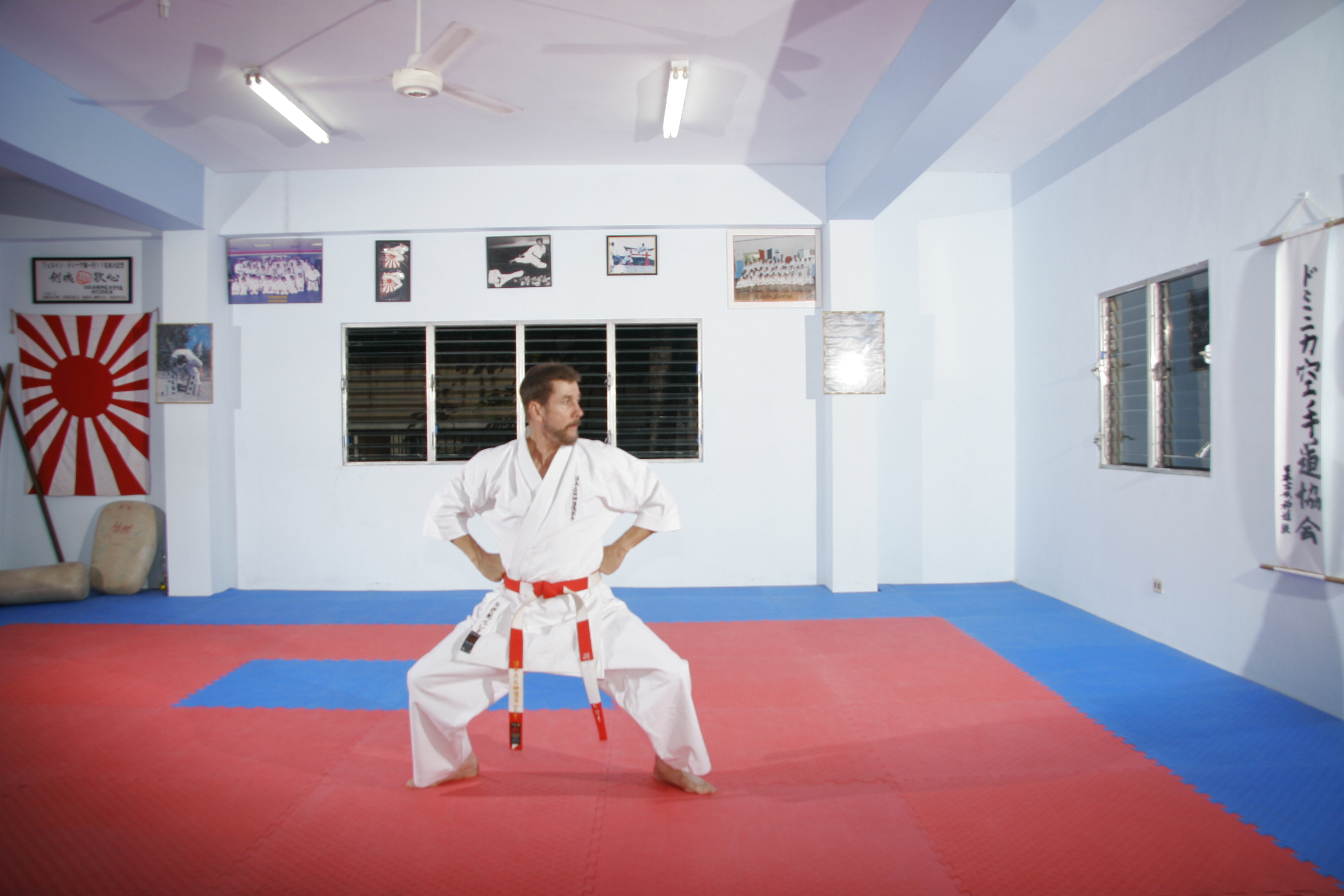 master messina